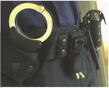 My Duty Belt Showing (left side and front of belt) Hiatts Speedcuffs (In holster), Belt Keeper (Not wearing a trouser belt so duty belt is sagging a bit), Silent Key Keeper with keys, Belt Buckle, CS Spray in holder with kevlar lanyard. Not shown on opposite side of belt, 3D Cell Maglite in holder, Monadnock Autolock 29" Baton in holster, Glock 17 in holster, Taser gun in drop down leg holster, Mini AA Maglite in open top holster, Medical gloves Pouch (in small of back position), Ammo pouch with two Glock Magazines, and then back to the Hiatts Speedcuffs. Wearing this while off duty in the station, with out Bulletproof vest or tac vest, with tac vest on, a lot of the equipment on my belt can be transferred to the vest. Not shown Heckler & Koch MP5 Submachine gun which is under lock & key.